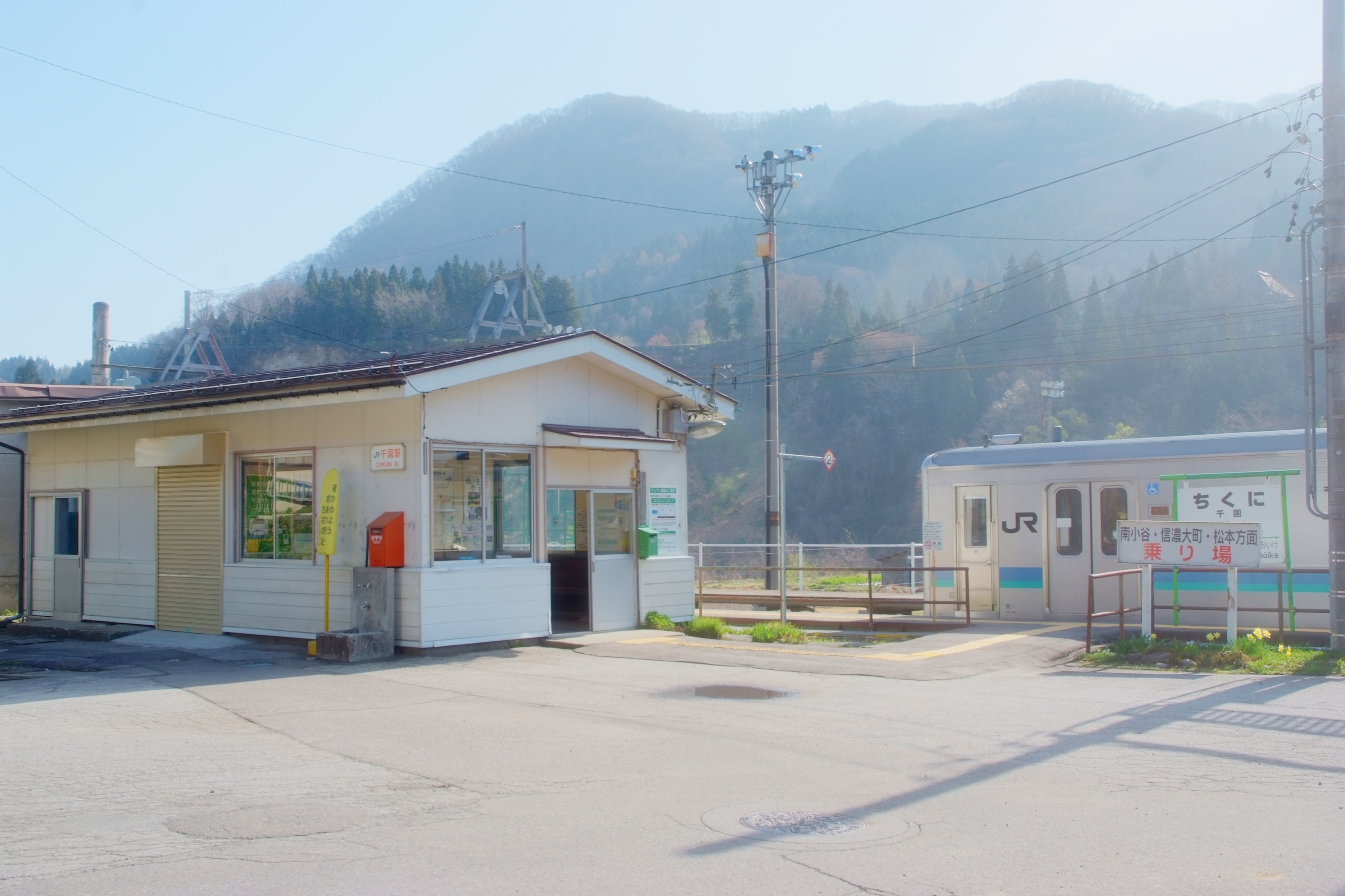 JR East Oito Line Chikuni Station